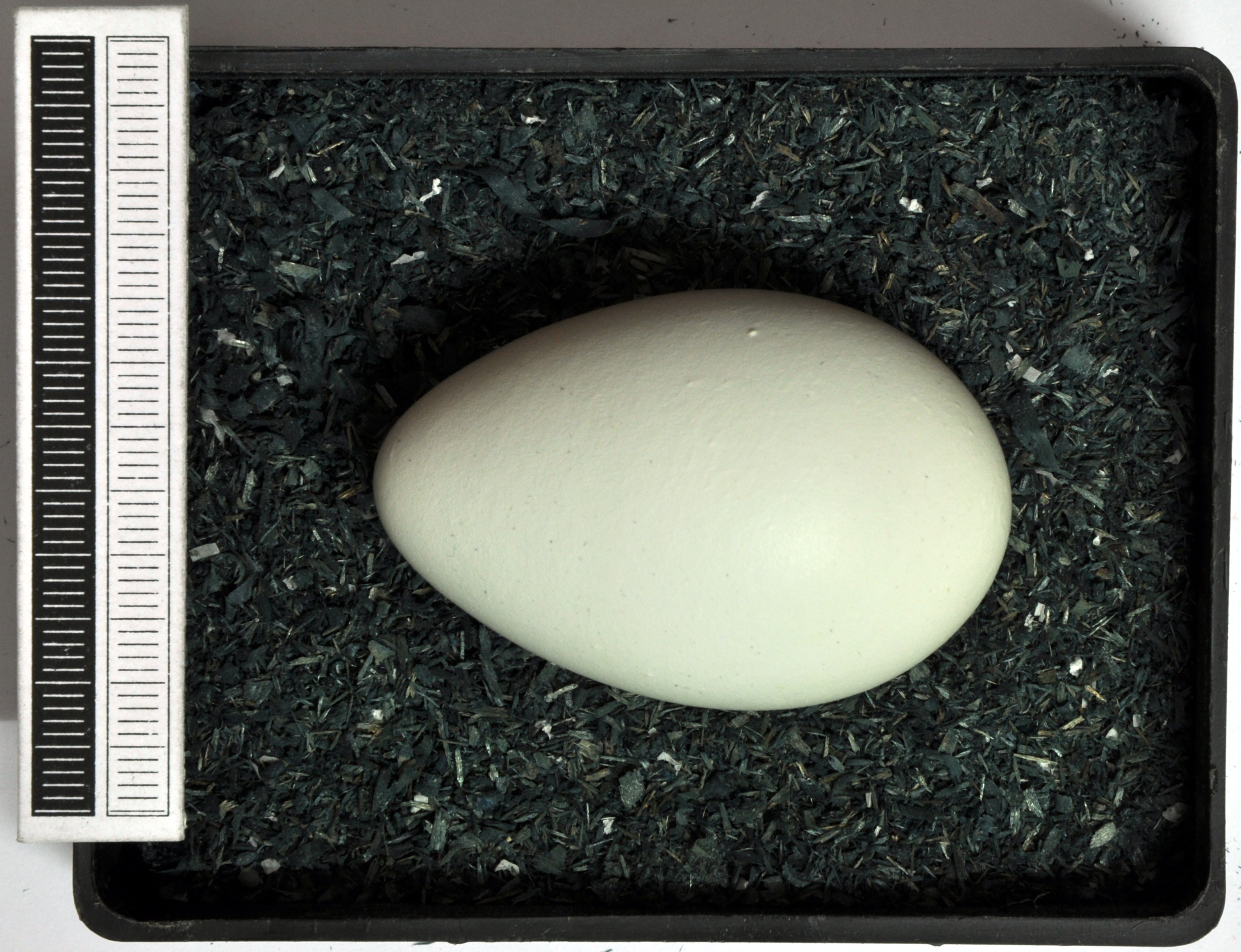 Little auk Alle alle, egg, Coll. Museum Wiesbaden, Origin: Spitsbergen, Norway, 21.06.1975, leg. W. Abelmann